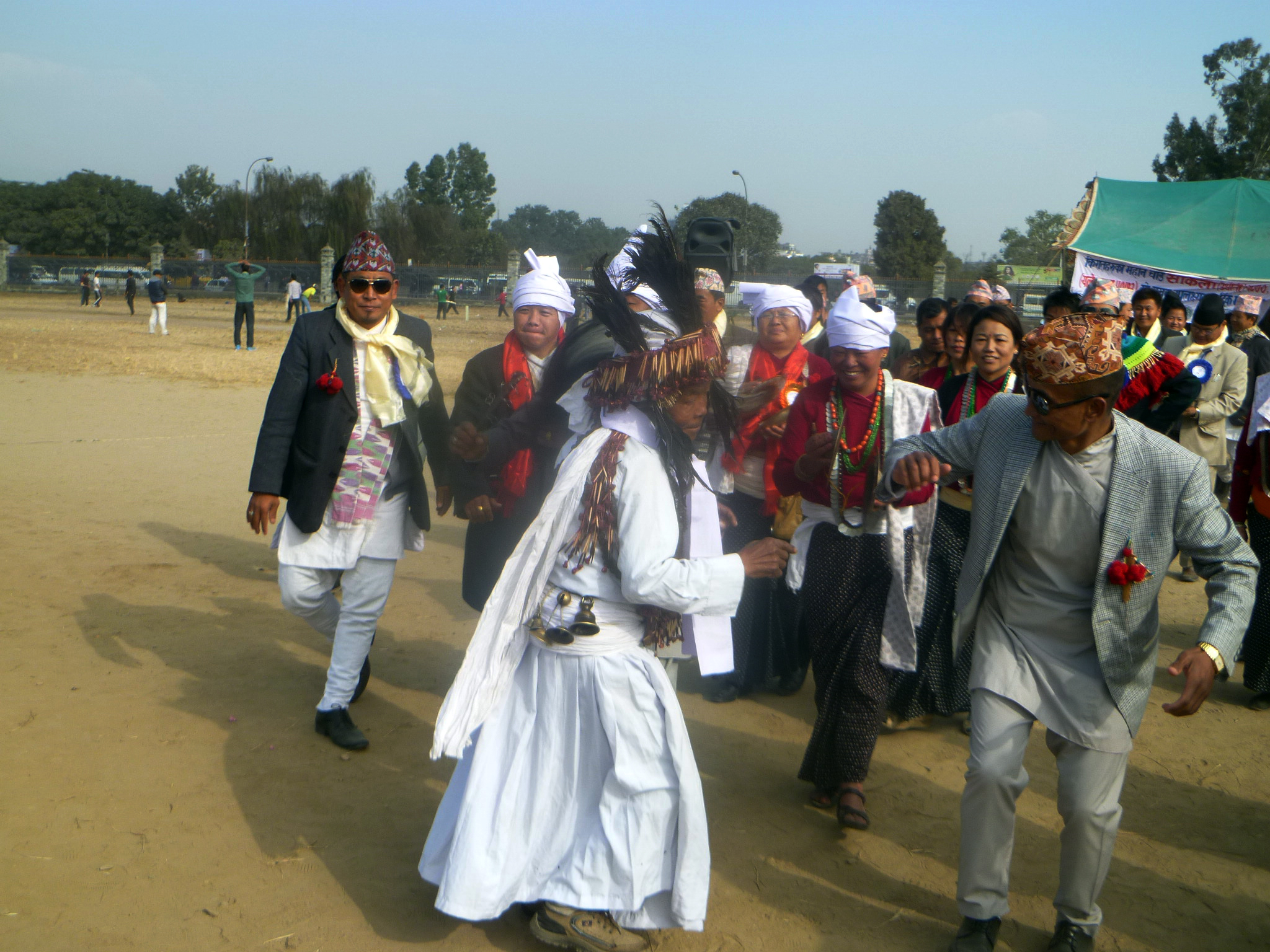 Celebration of Udhauli festival in Tundikhel, Kathmandu.